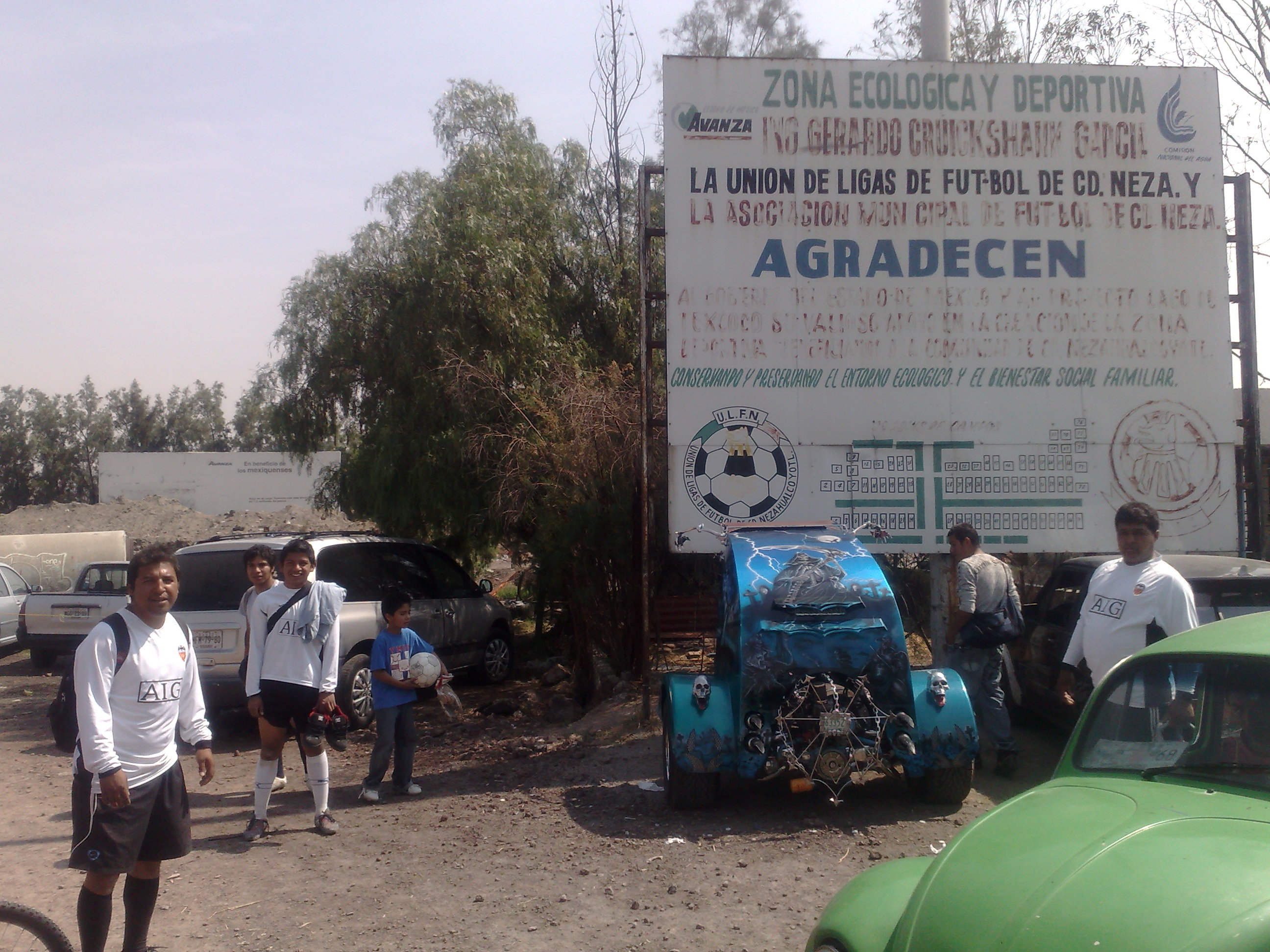 The Northern edge of Cd. Nezahualcoyotl used to be Mexico City's garbage dump, limited by one of the main open-air sweage systems. Its size is unbelievable – Huge is too small a word for it. After many years of being the dirtiest place in the city, it was shut down. Its land is poisoned unsuitable for basically anything. So, it was buldozered, leveled and covered in sand — and became an Ecological, recreational zone. The saddest, dirtiest ecological zone I've ever seen. A very surrealist setting. At least, recreational it is. Over the dead soil, 76 football fields were drawn. When we arrived there, we were amazed at the outflow of people – Many, many hundreds of people use this barren place for their Sunday morning sports. It must not be too healthy, but at least there is a sports, convivence area available for its huge population.